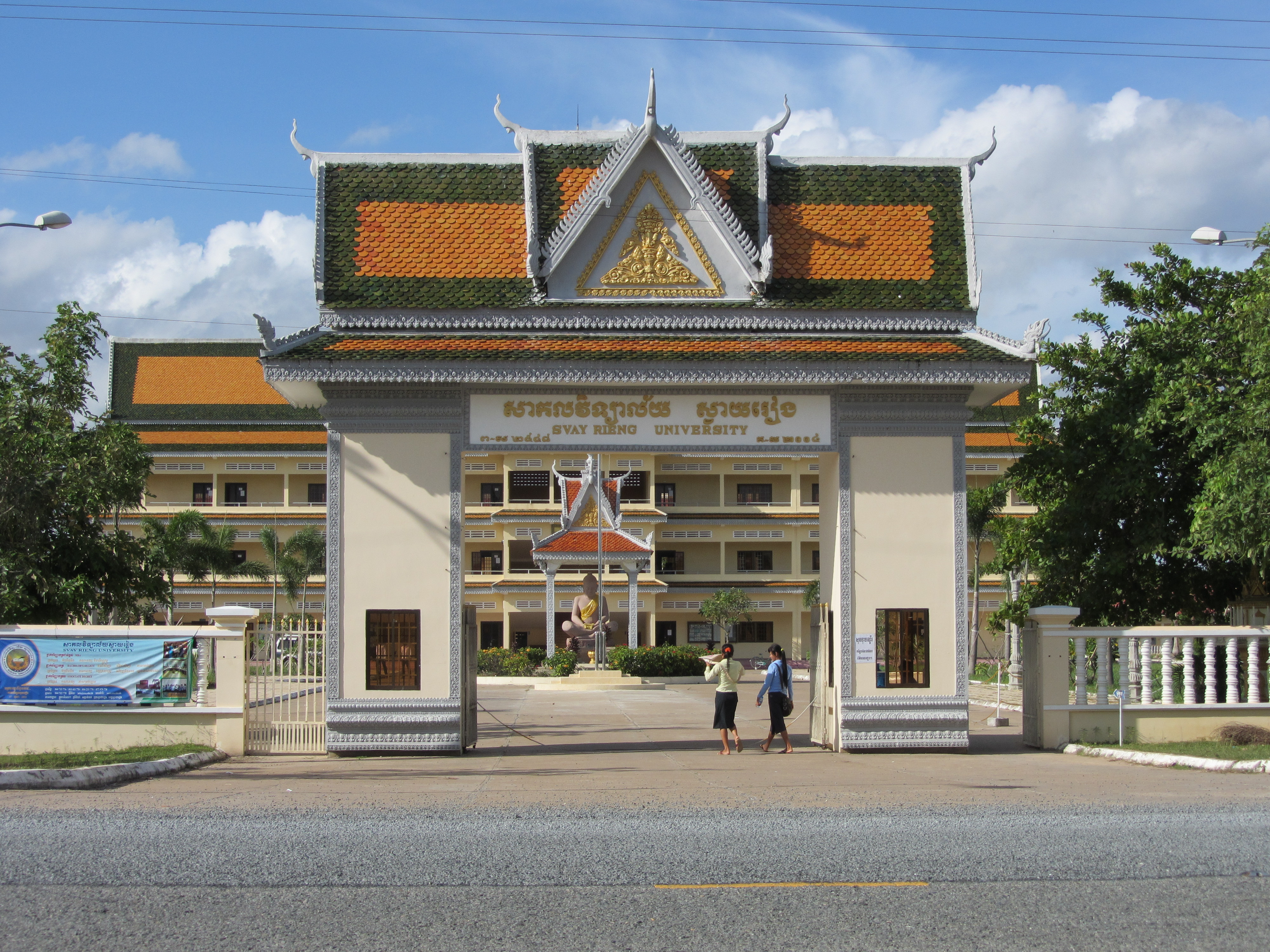 Svay Rieng University